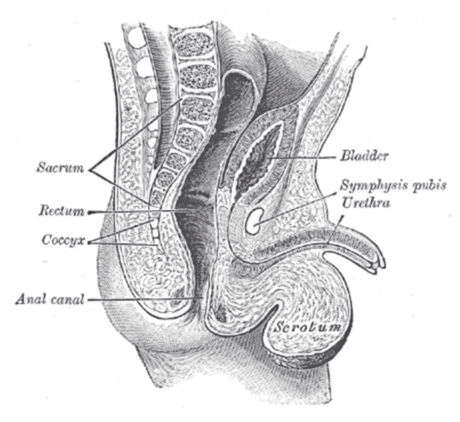 Sagittal section through the pelvis of a newly born male child.